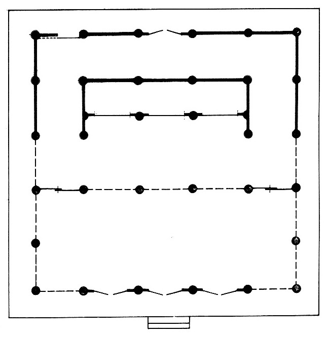 Layout of Kôon-ji temple at Kaizuka, Pref Osaka